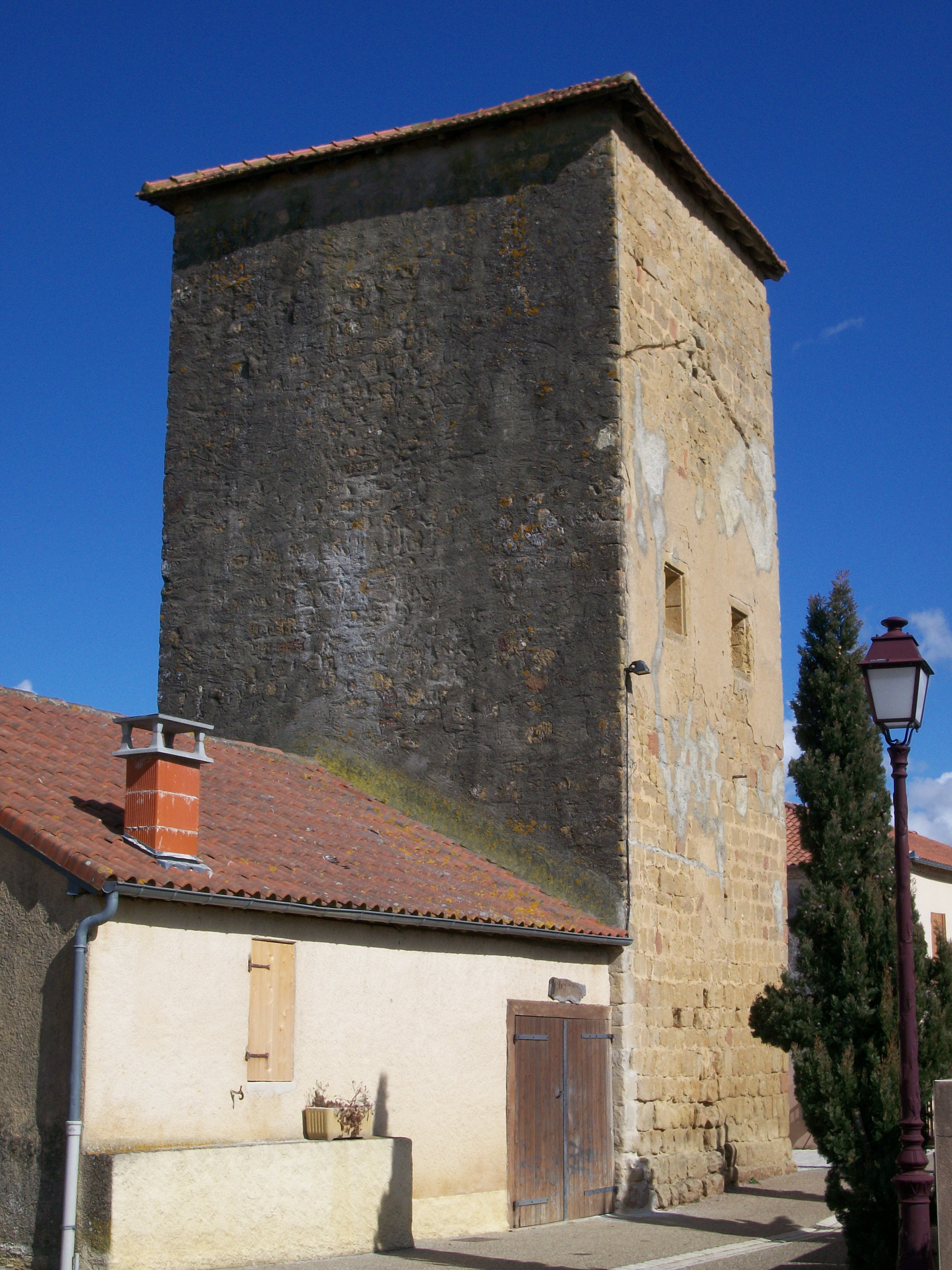 Miramont-d'Astarac Tower, Gers, France